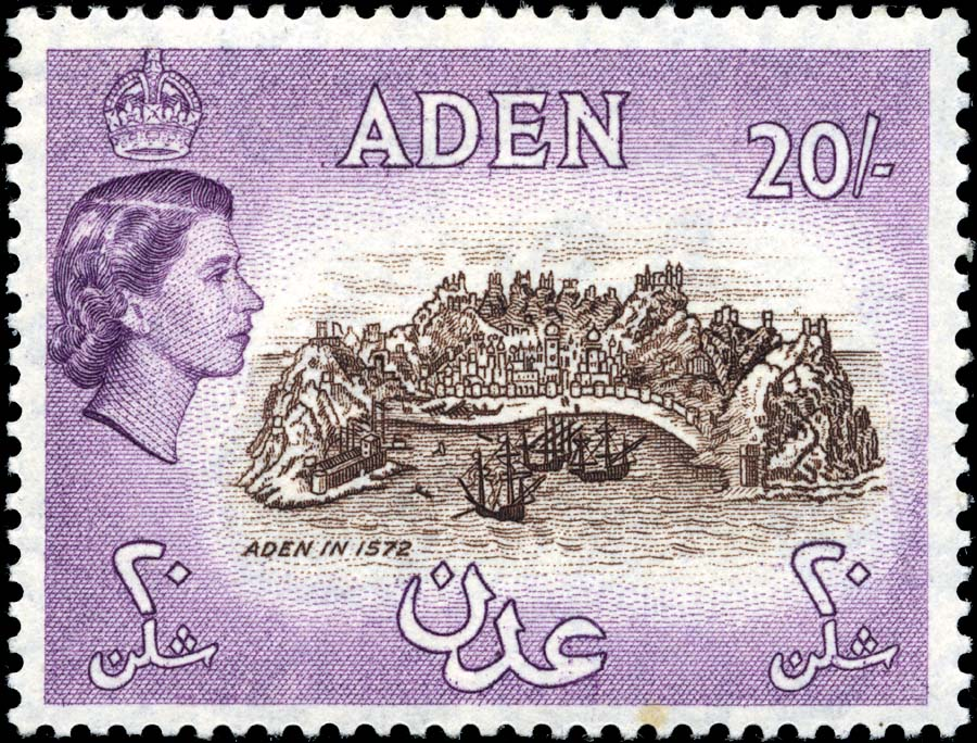 Aden 20sh stamp of 1953